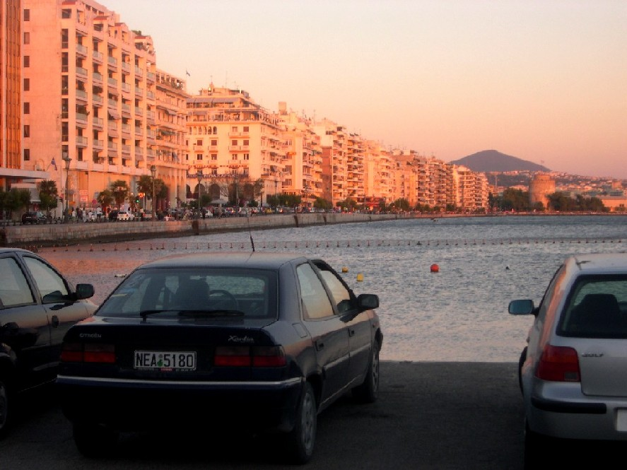 Sunset in Thessaloniki's seaside Nikis Avenue. View from the Port.